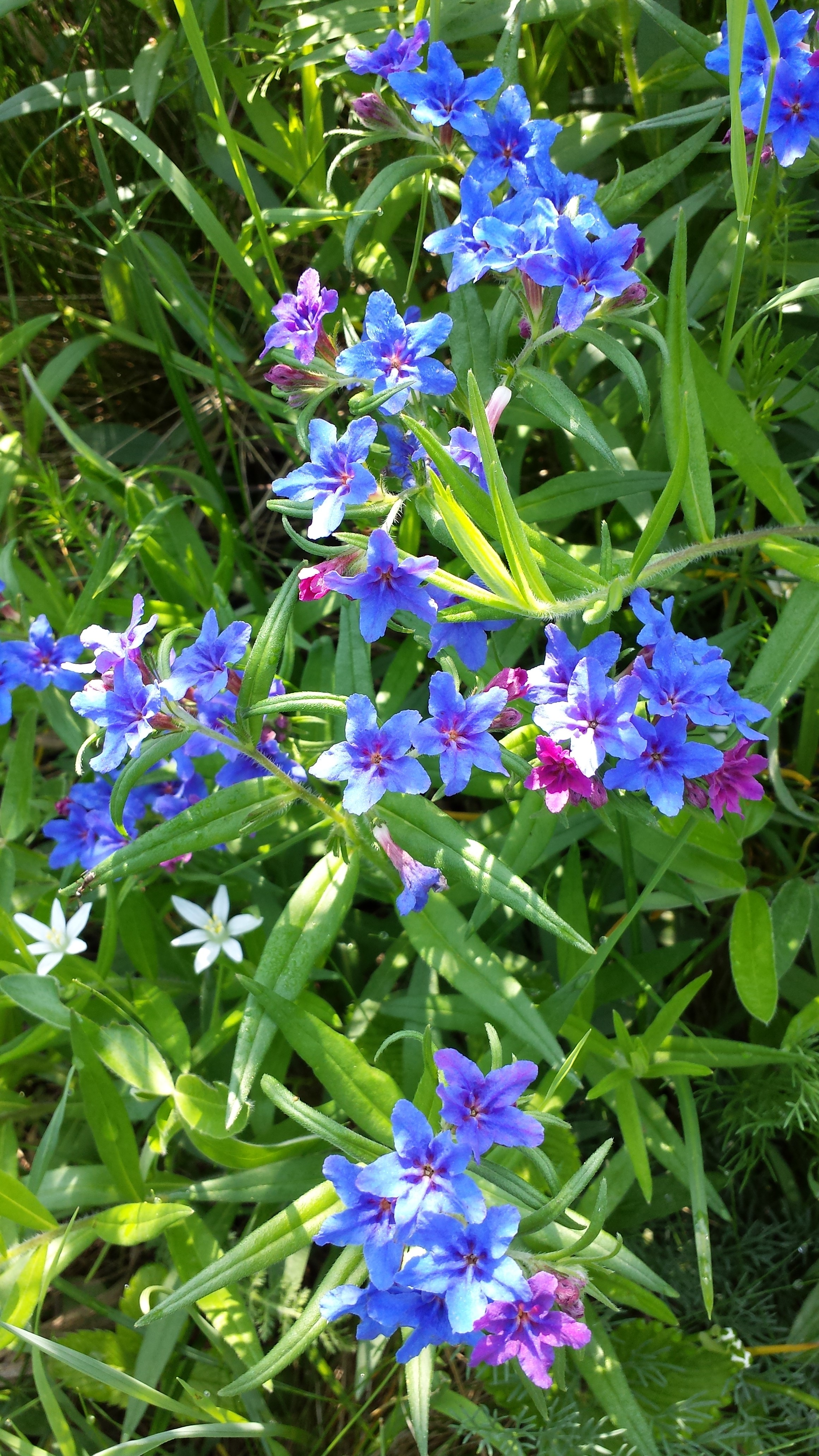 Florescences Taxon: Buglossoides purpurocaerulea (sensu Fischer et al. EfÖLS 2008) Location: Alte Schanzen, object XII, Floridsdorf, Vienna - ca. 225 m a.s.l. Habitat: dry grassland, border of a shrubbery